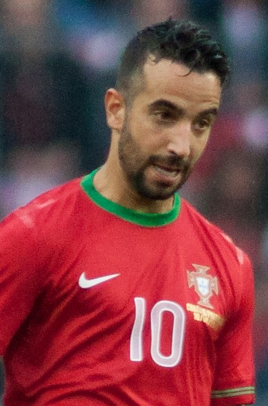 Croatia vs. Portugal, 10th June 2013